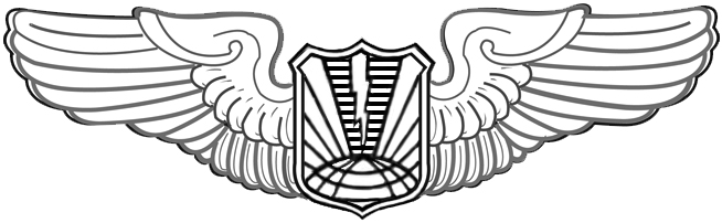 The new "pilot wings" for operators of unmanned(-only) aircraft.